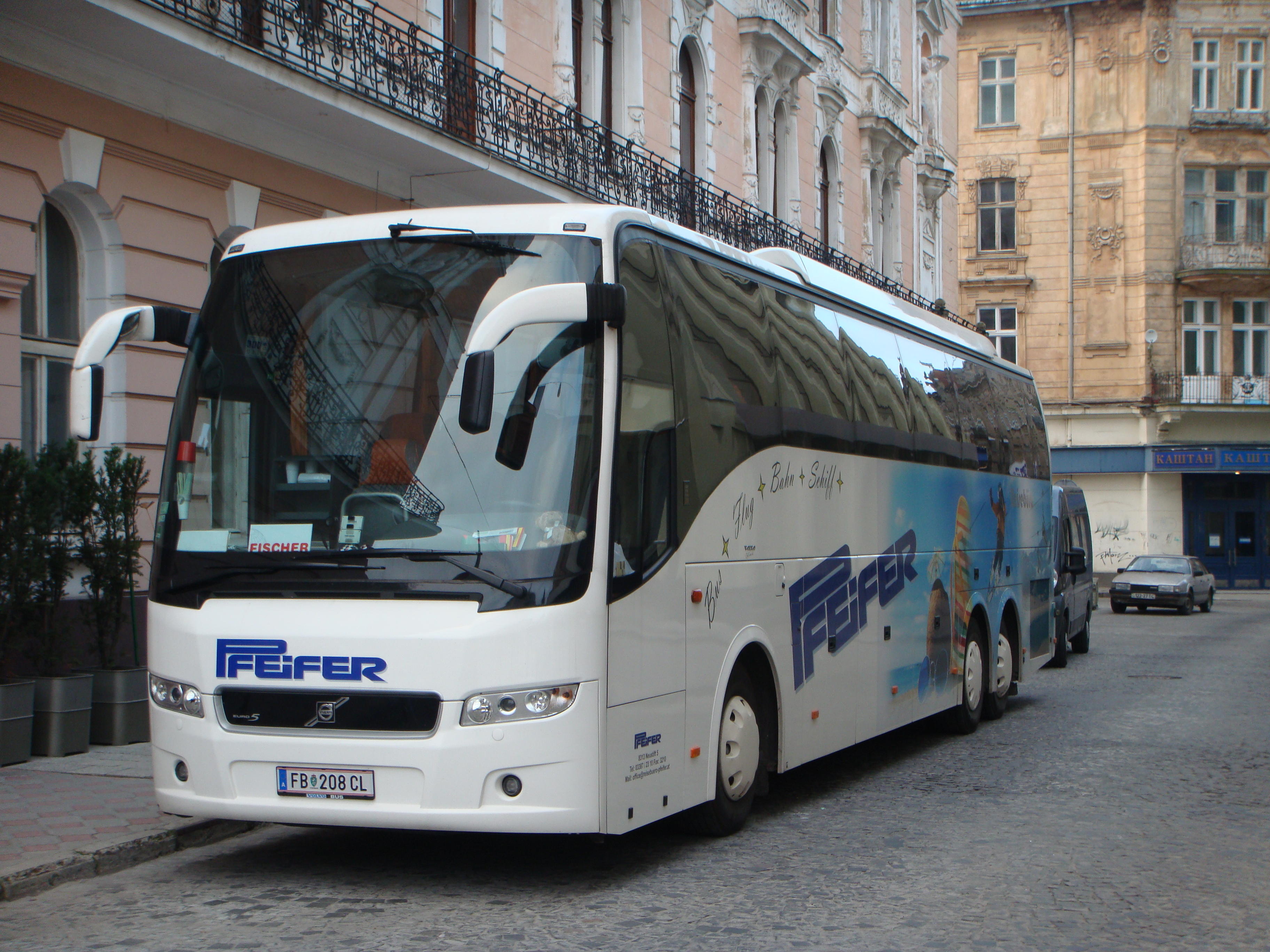 Volvo 9700 6x2, 3-axle coach (reg. FB 208CL) in Ukraine. Reisebüro - Busunternehmen Pfeifer from Neustift in Austria operator.